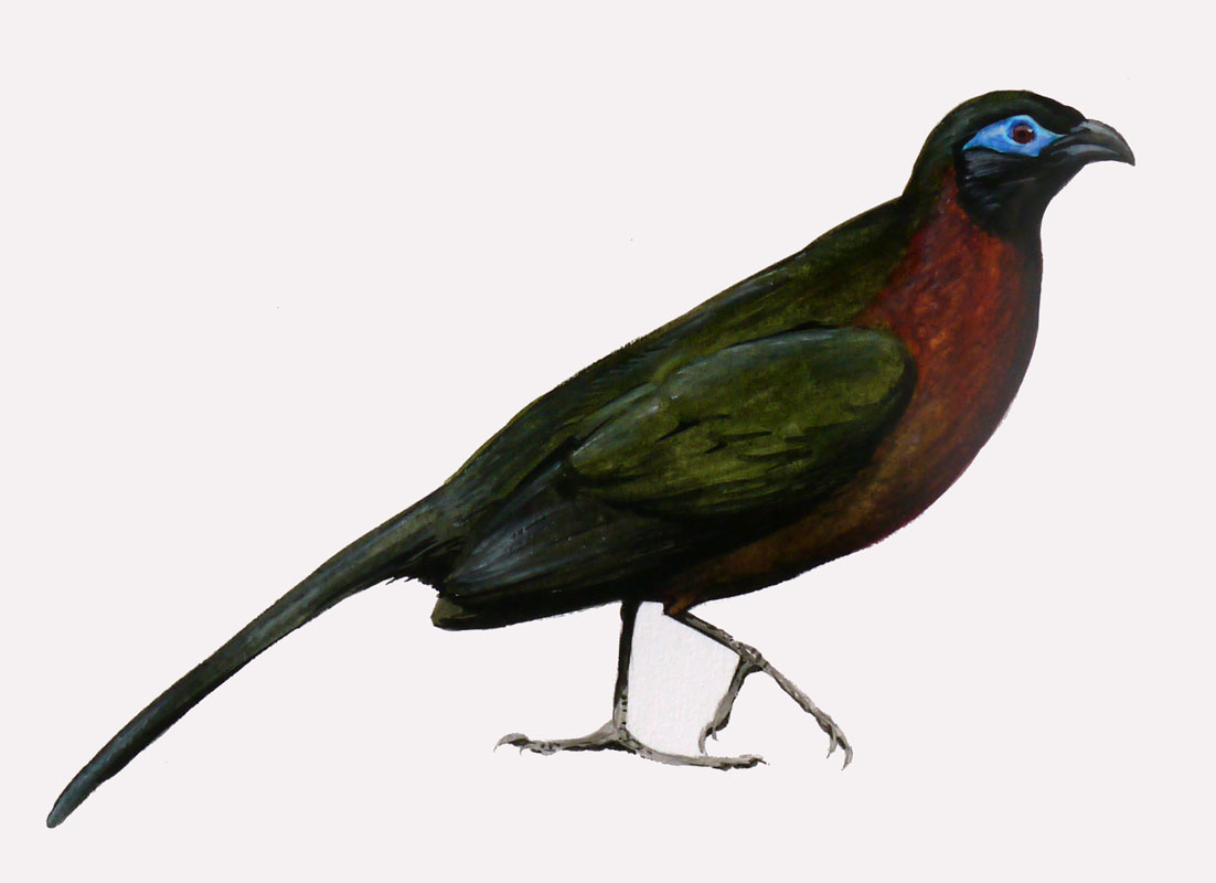 Red-breasted Coua. Watercolor, Romain Risso.